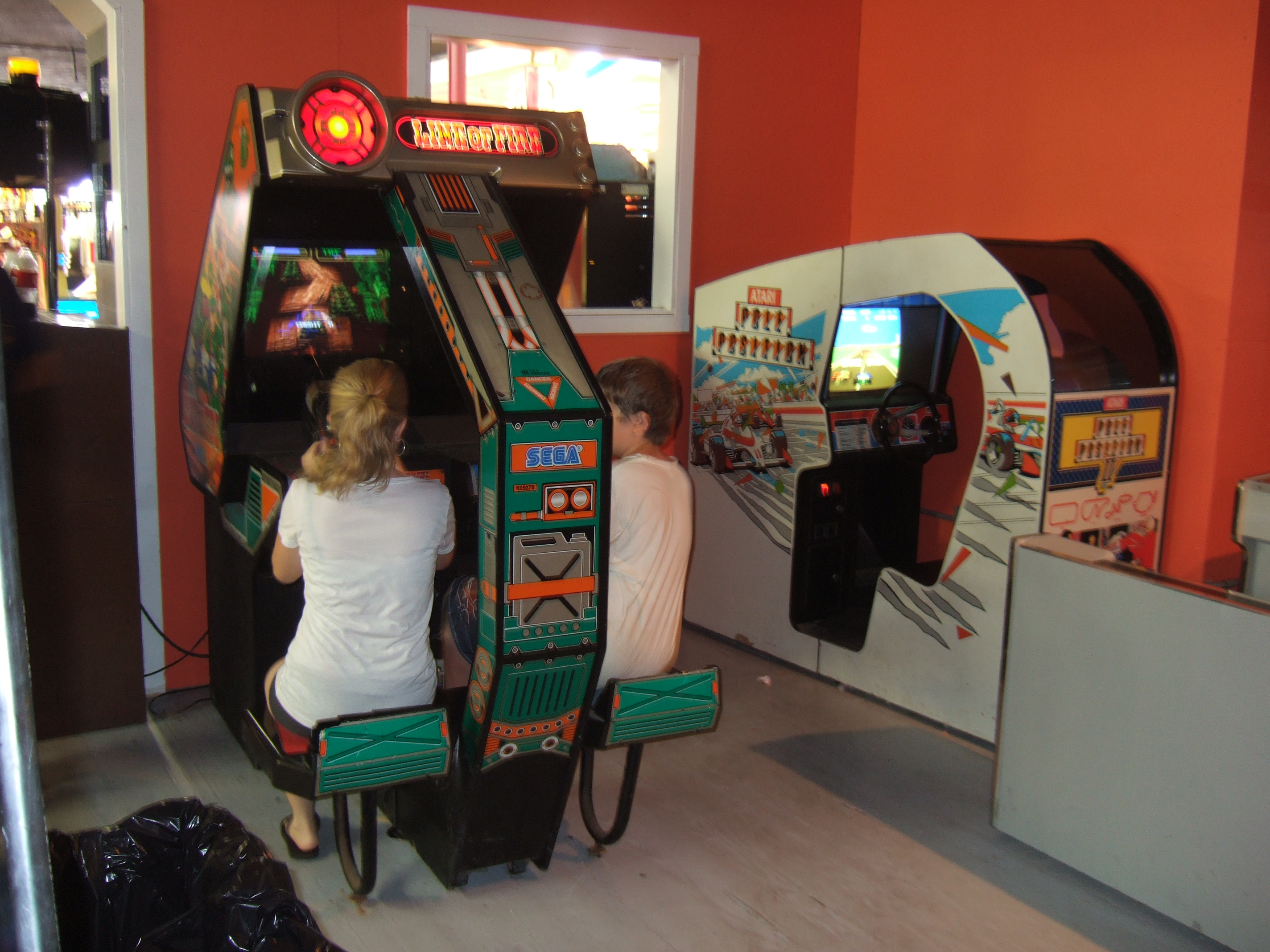 With Greg at the Flashbacks retro arcade in Seaside Heights, NJ, July 25, 2009. pictured: Sega's Line of Fire and Namco's Pole Position II sit-down cabinets